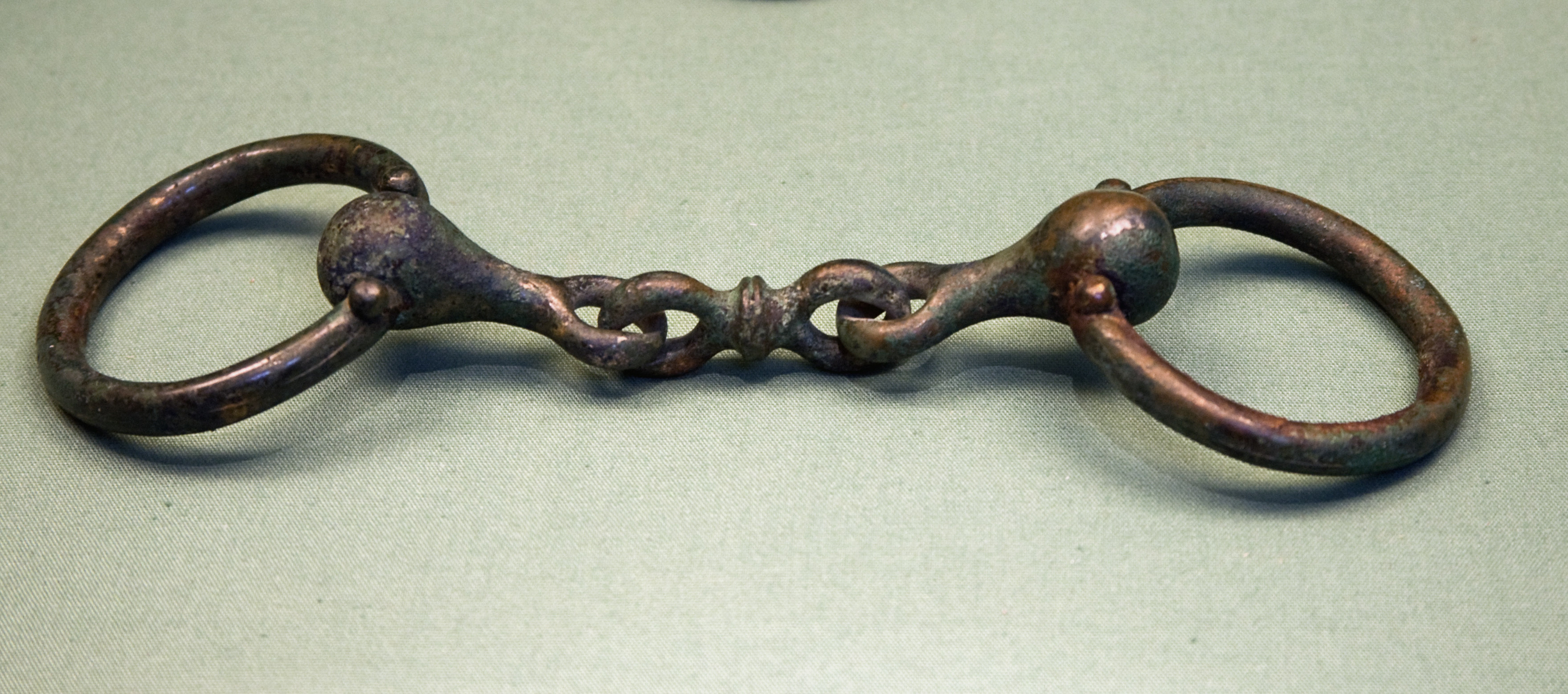 Bronze snaffle bit from the King's Barrow burial in Yorkshire, now in the British Museum. Tag on exhibit reads: "Bronze bridle-bit from the chariot burial known as the King's Barrow, Arras, East Yorkshire 200-100 BC. Presented by Sir A W Franks PRB 1877 10-16 10" See BM database entry for more details.